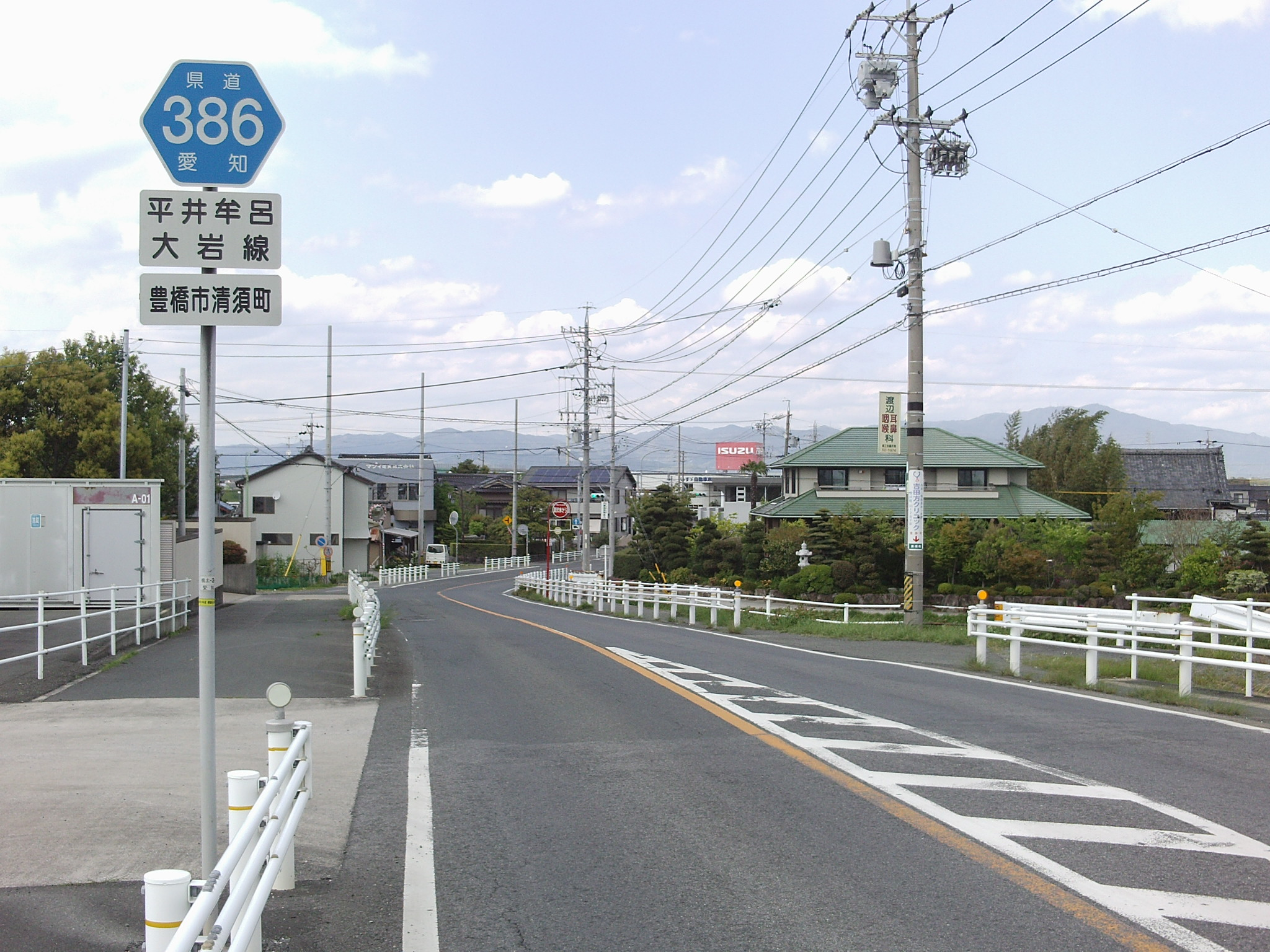 The Aichi Prefectural Road Route 386 in Kiyosucho, Toyohashi City